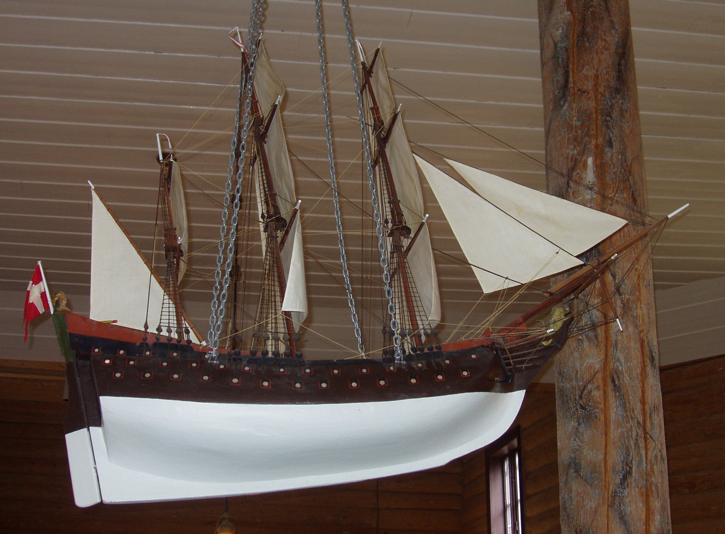 Ship Model in Dolstad church, Mosjøen, Norway